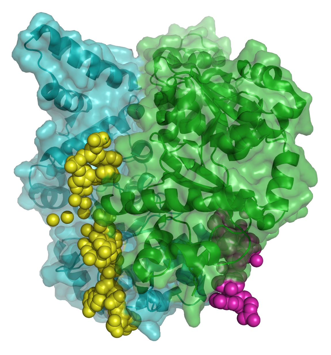 3d ribbon/surface model of E.coli primase (dnaG) from PDB 3B39. Red.: J.E.Corn et al. (2008). Identification of a DNA primase template tracking site redefines the geometry of primer synthesis.. Nat Struct Mol Biol, 15, 163-169. PMID 18193061 [